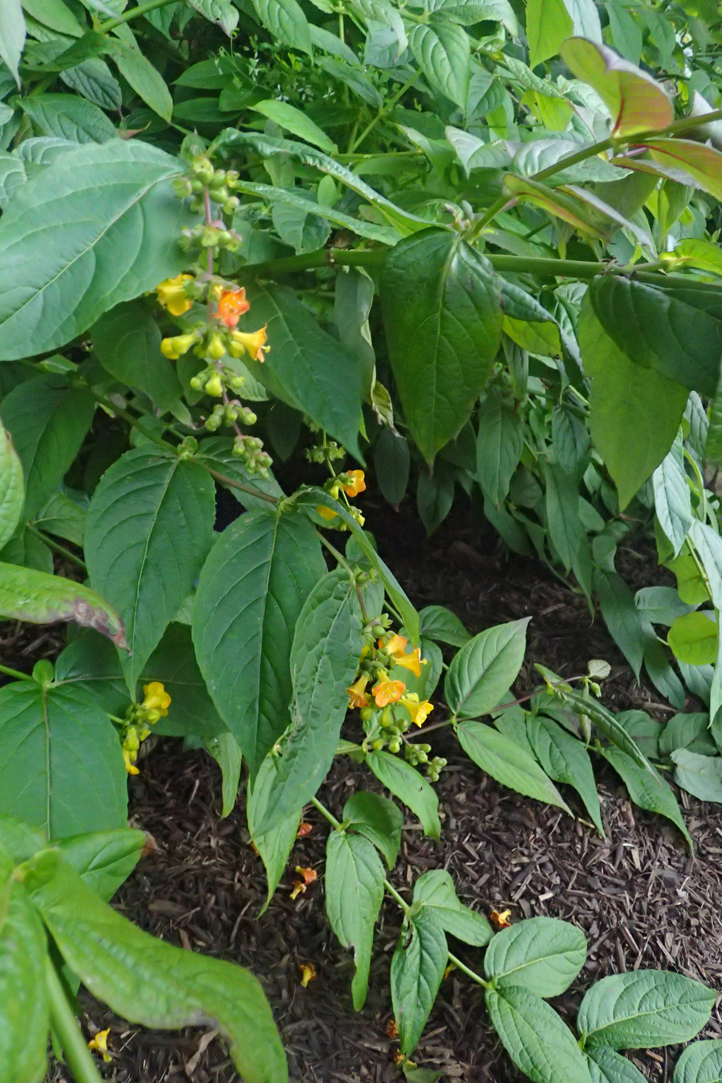 Leycesteria crocothyrsos in the San Francisco Botanical Garden